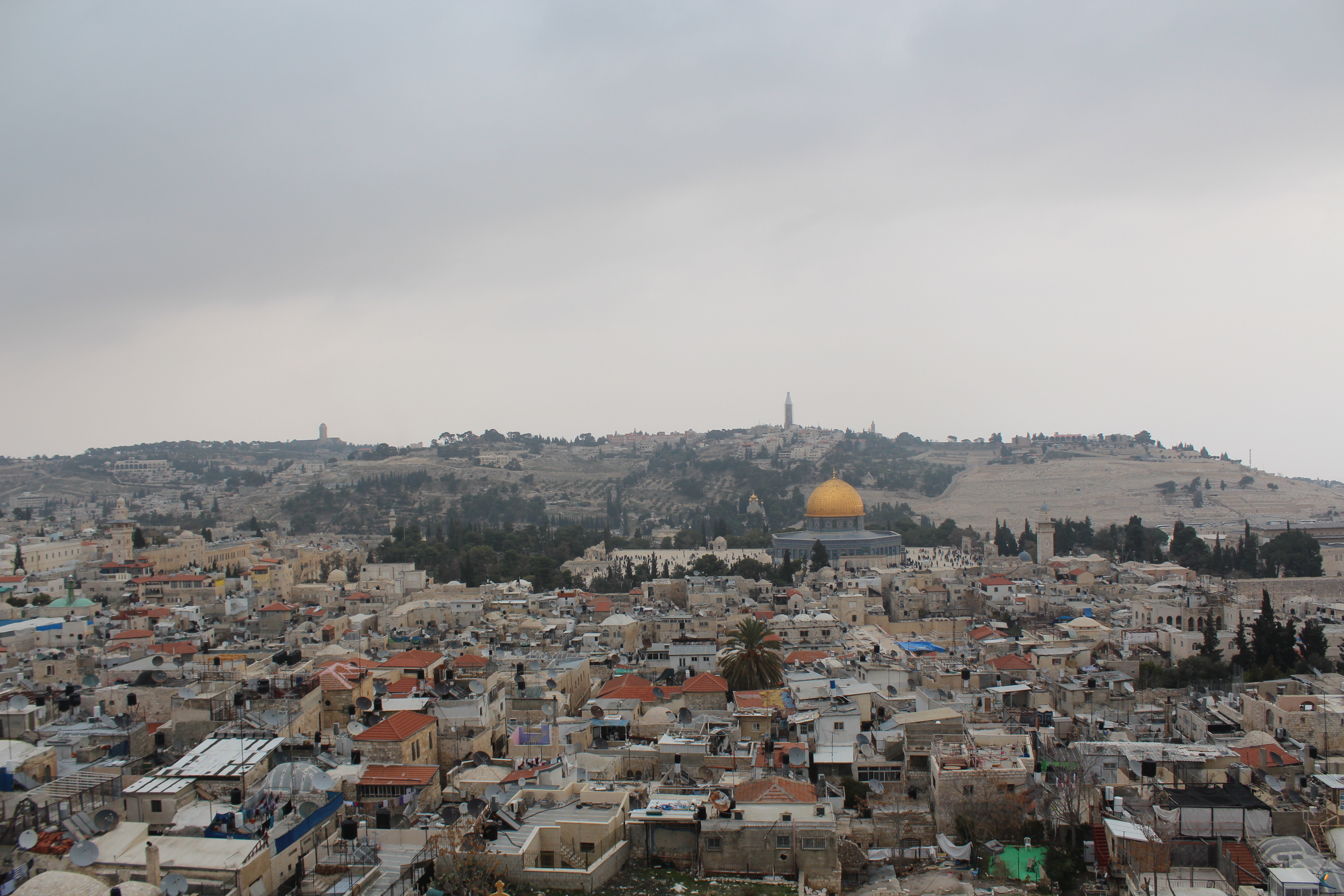 View of Temple Mount from the Lutheran Church of the Redeemer, Jerusalem